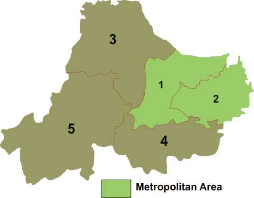 county-level divisions of Huzhou in Zhejiang province, China